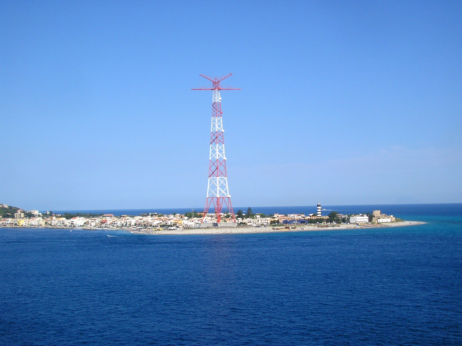 Dismissed electricity pylon on the edge of the Strait of Messina, known as Pilone di Torre Faro, Messina, Italy.